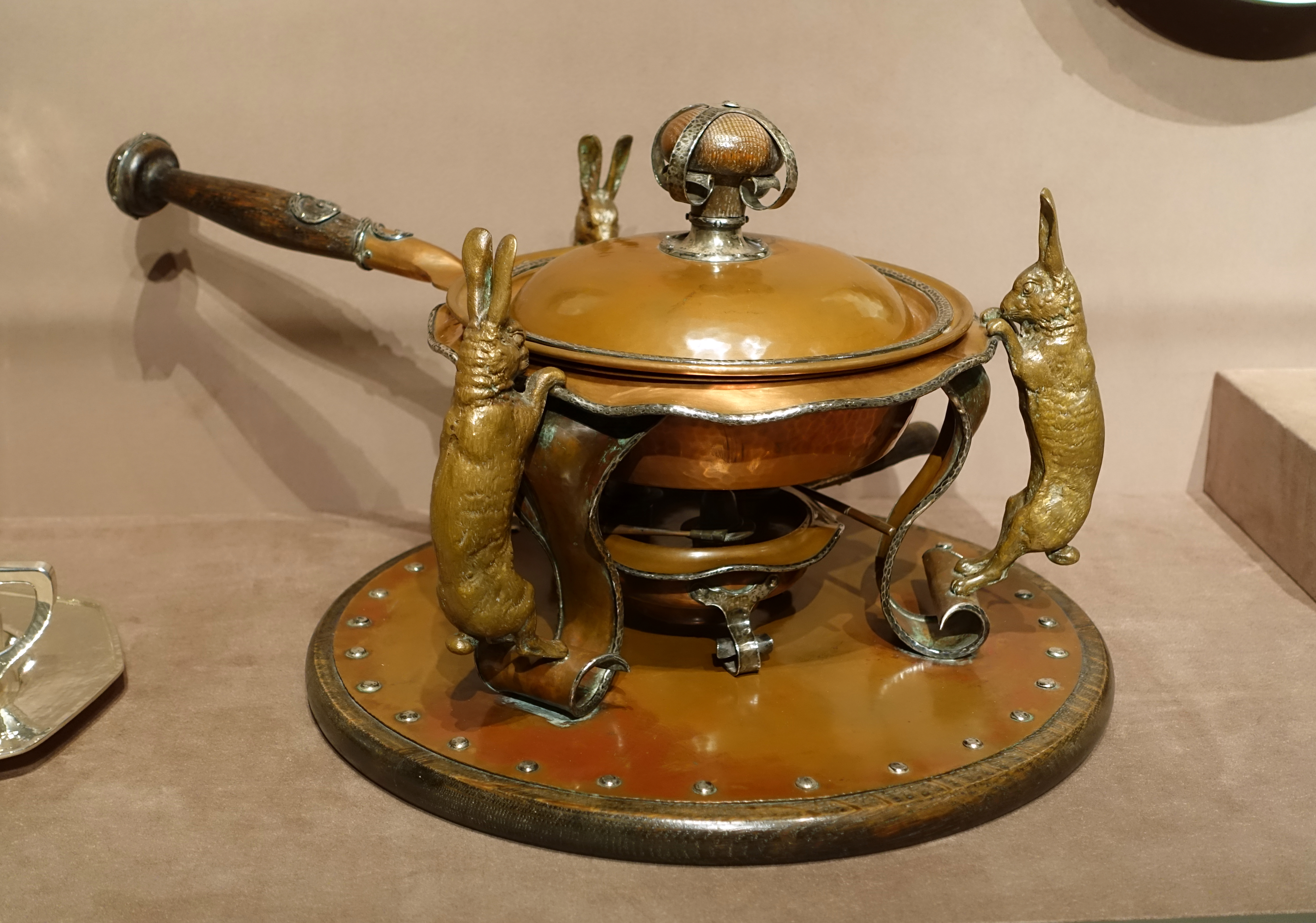 Exhibit in the Dallas Museum of Art, Dallas, Texas, USA.